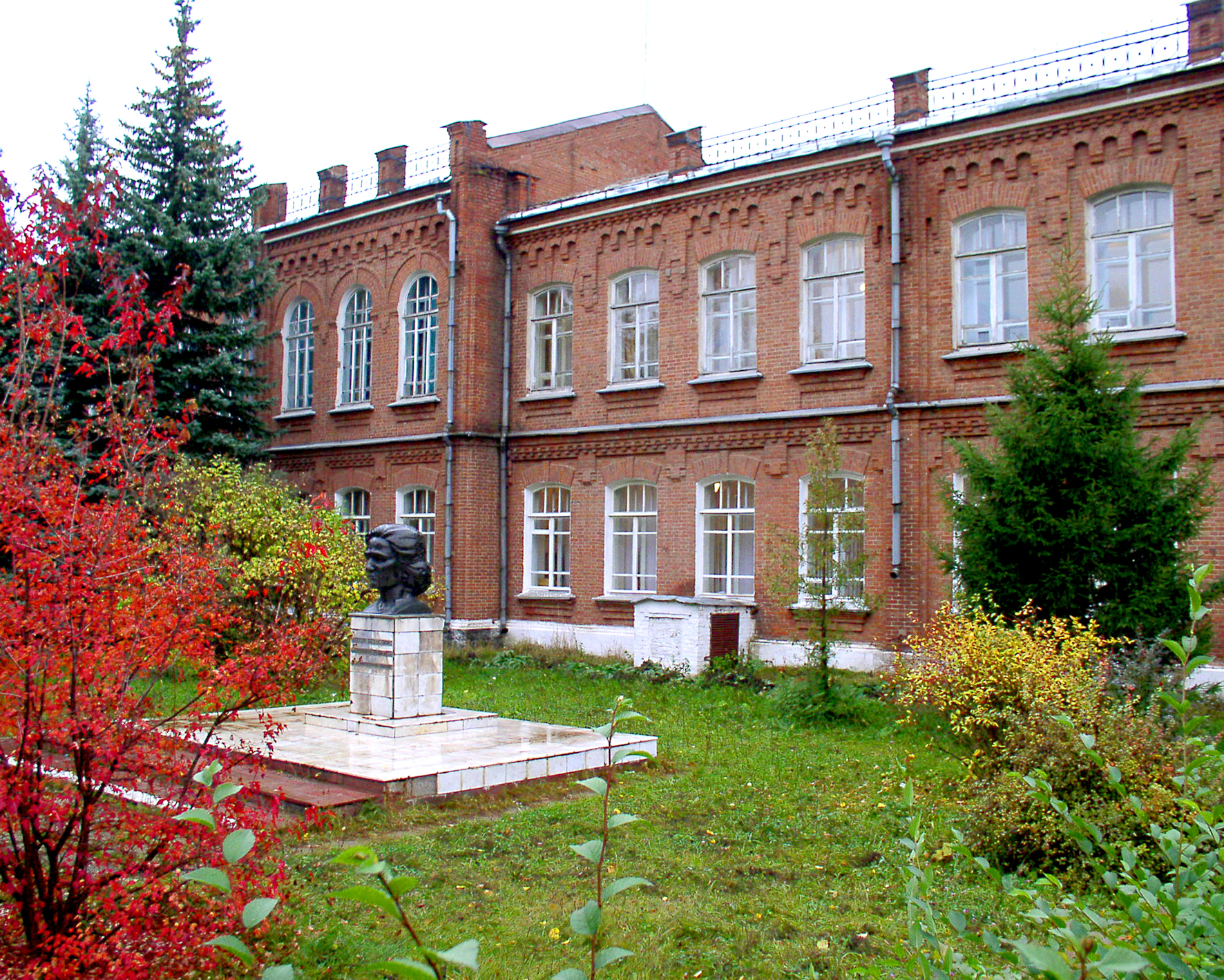 Monument to Hadiya Davletshina on the territory of the Birsky branch of the Bashkir State University, 2004.